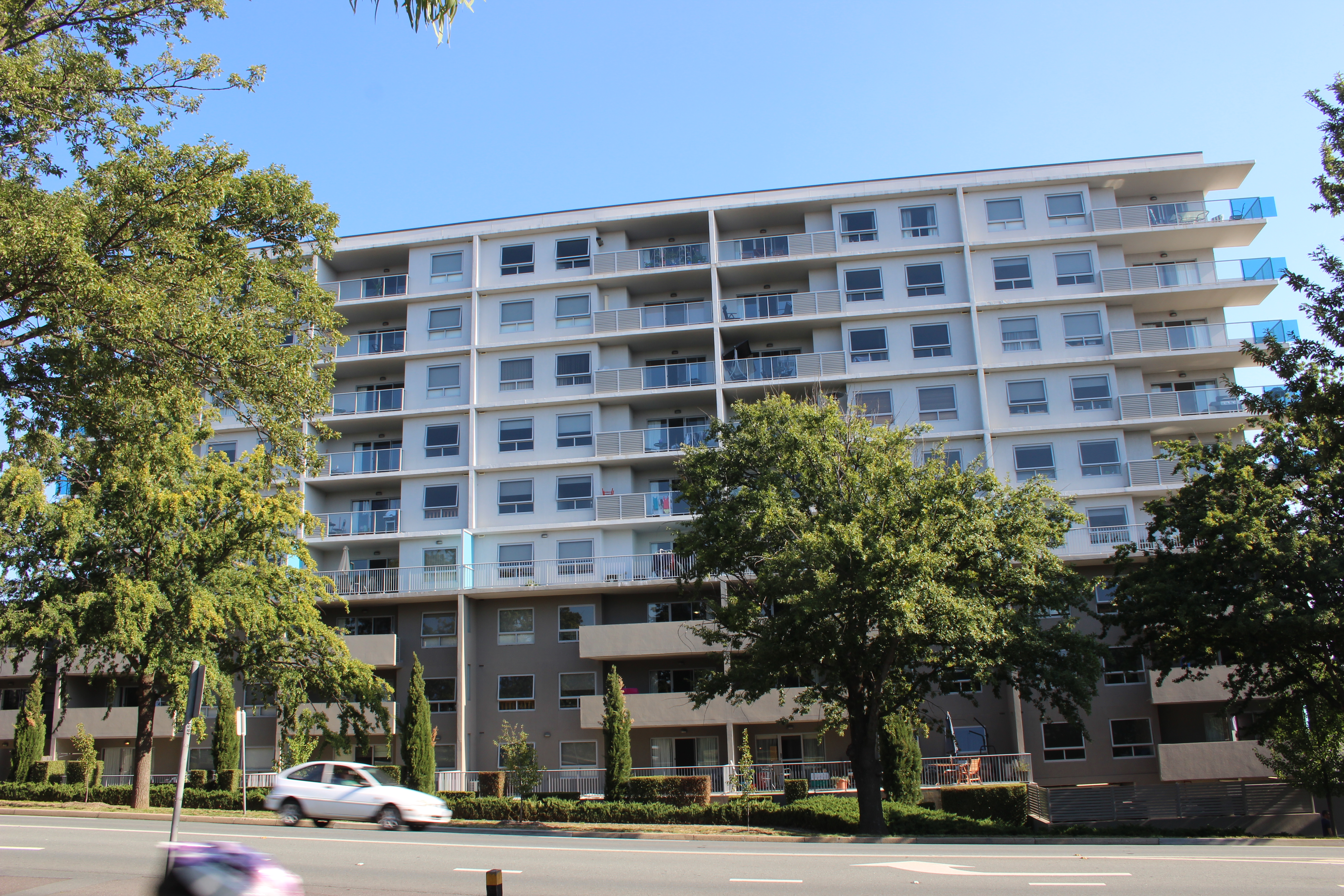 Flats in Wakefield Avenue, North Braddon